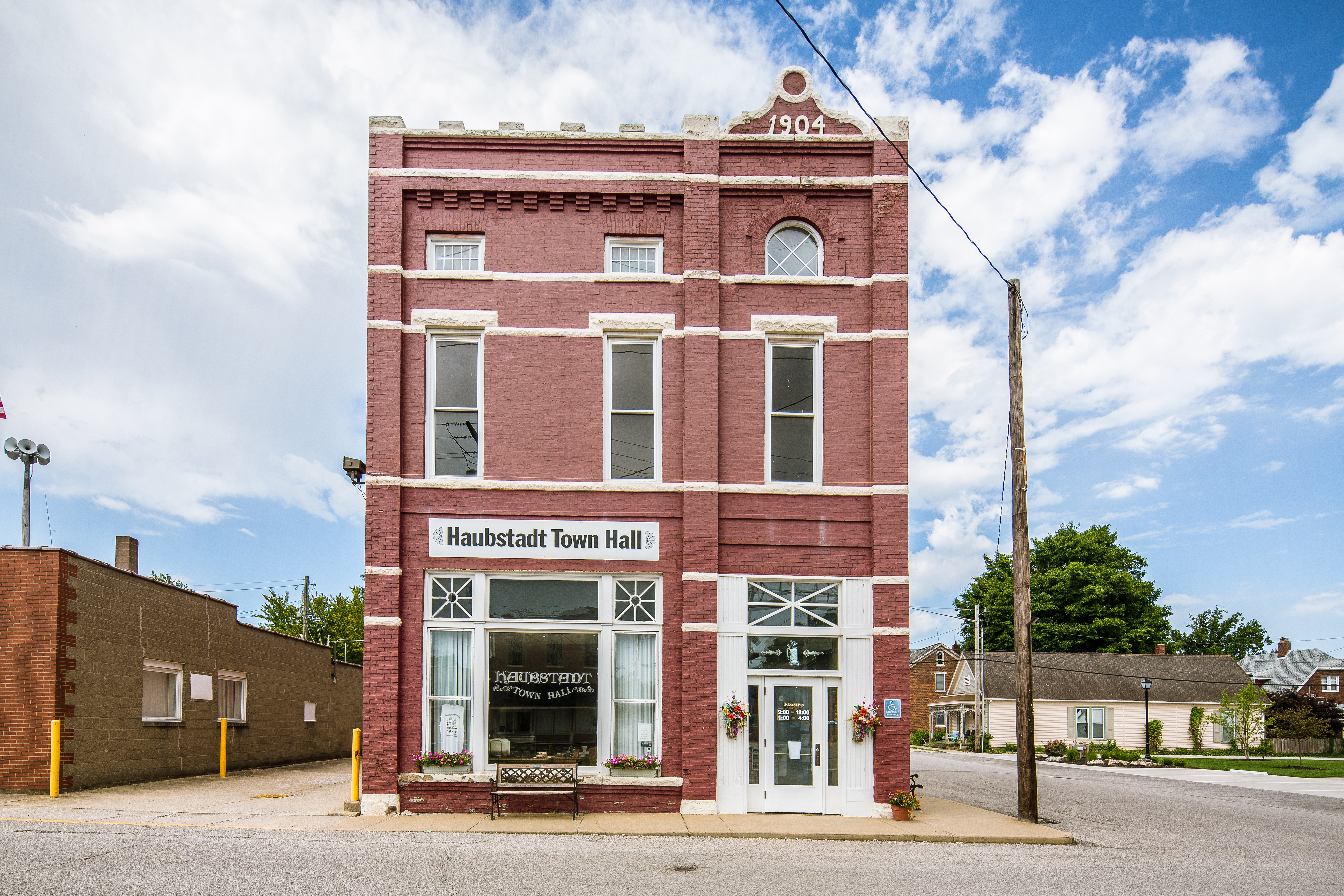 Photo from Small Town Indiana photo survey.